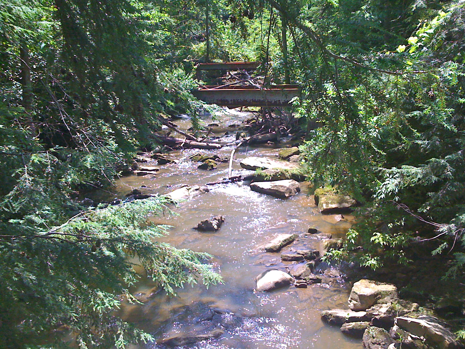 The Big Run Creek in Cascade Park, New Castle, Pennsylvania. The concrete bridges in the background were track supports to the park's Comet roller coaster, which crossed the creek multiple times.